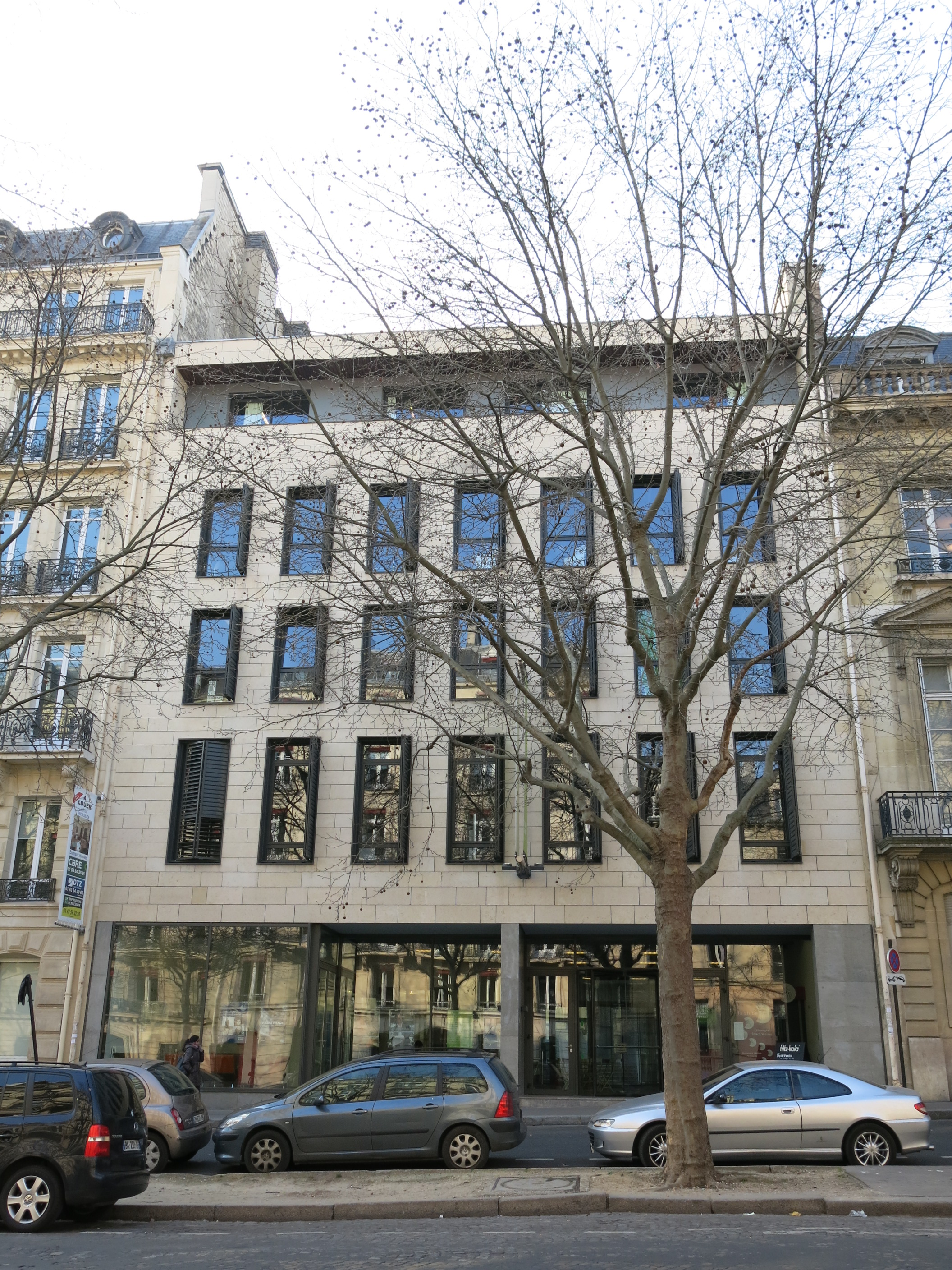 Building at 17 avenue d'Iéna, Paris 16th arrond.